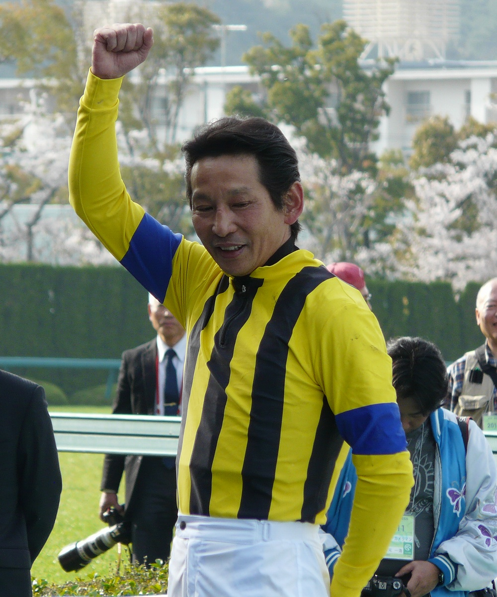 Katsumi-Ando20110410